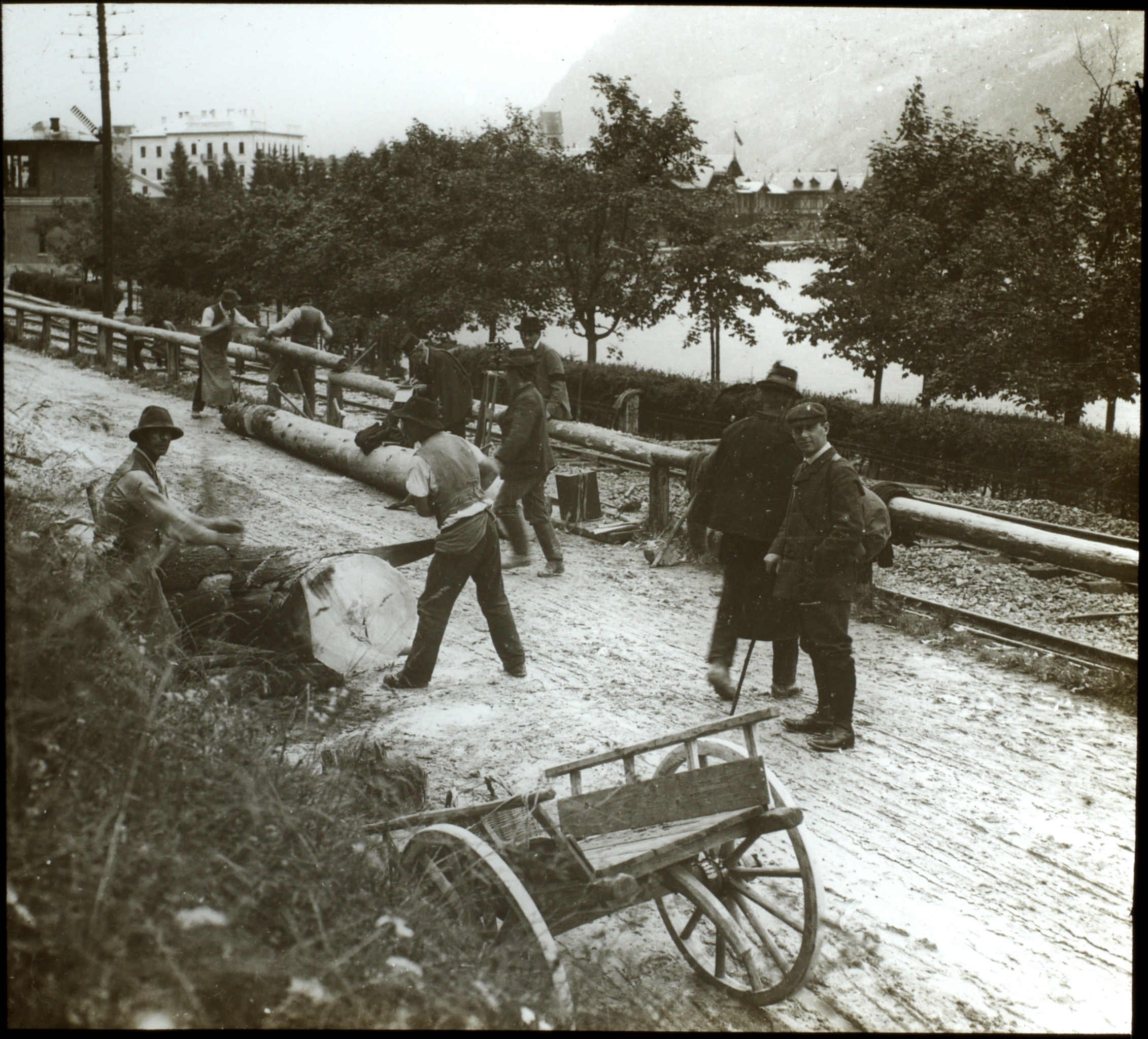 1903 Zell am See - tree struck by lightning. Photo by A.E.Hasse, Baildon, Yorks. 6x6 glass slide diapositive